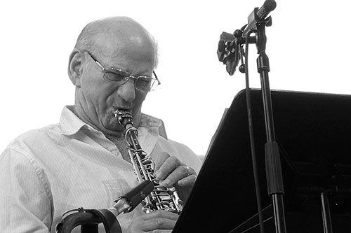 Dave Liebman performing with Palle Mikkelorg and Blood Sweat Drum n Bass Big Band at Aarhus Jazz Festival 2015